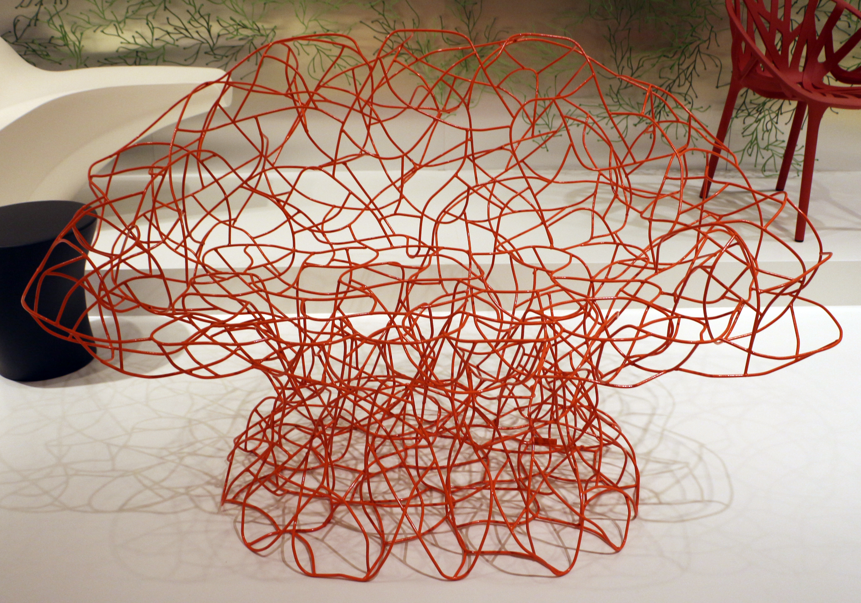 Furniture in the Indianapolis Museum of Art